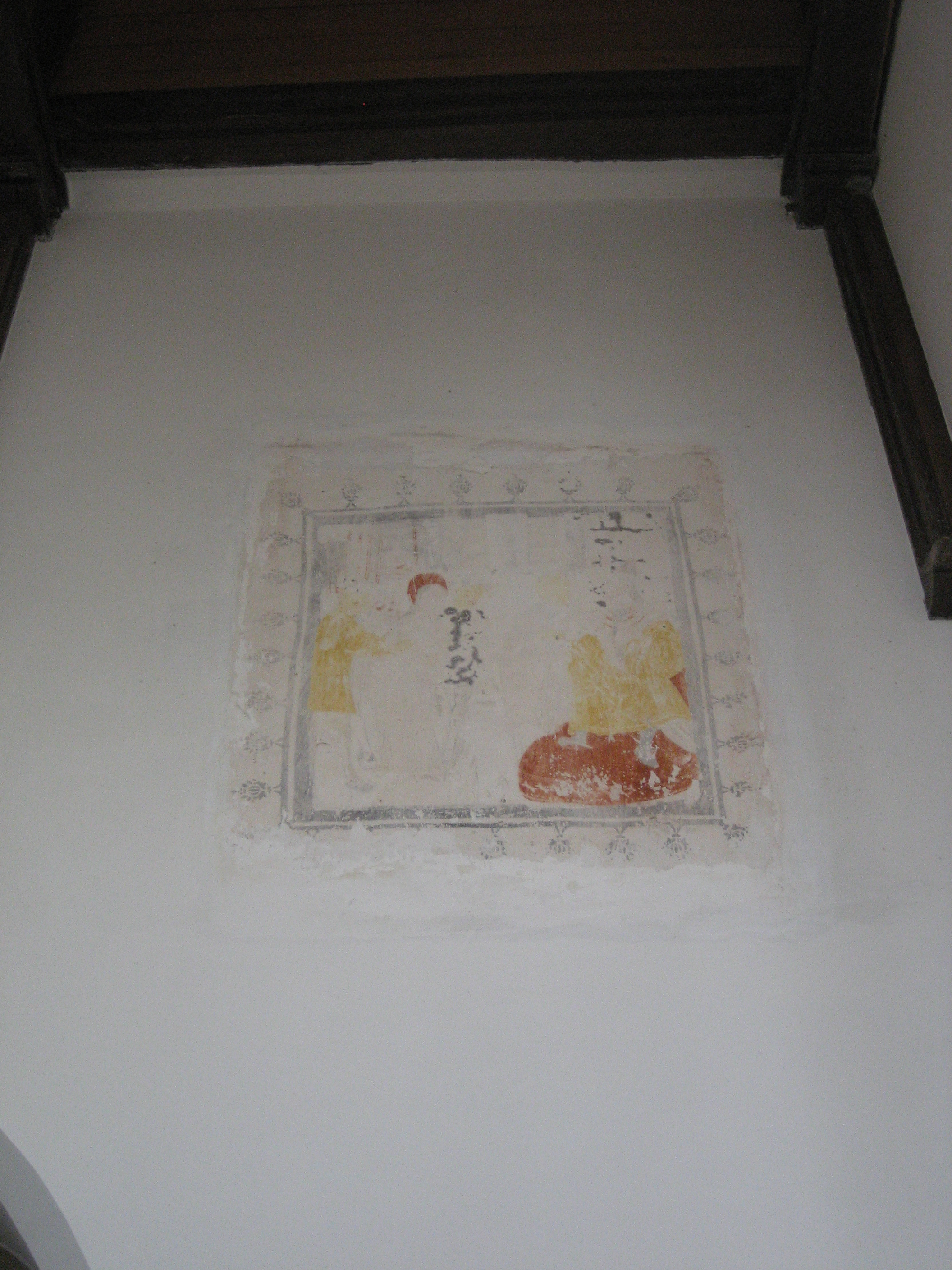 Dorpskerk Abcoude (The Netherlands). Old mural